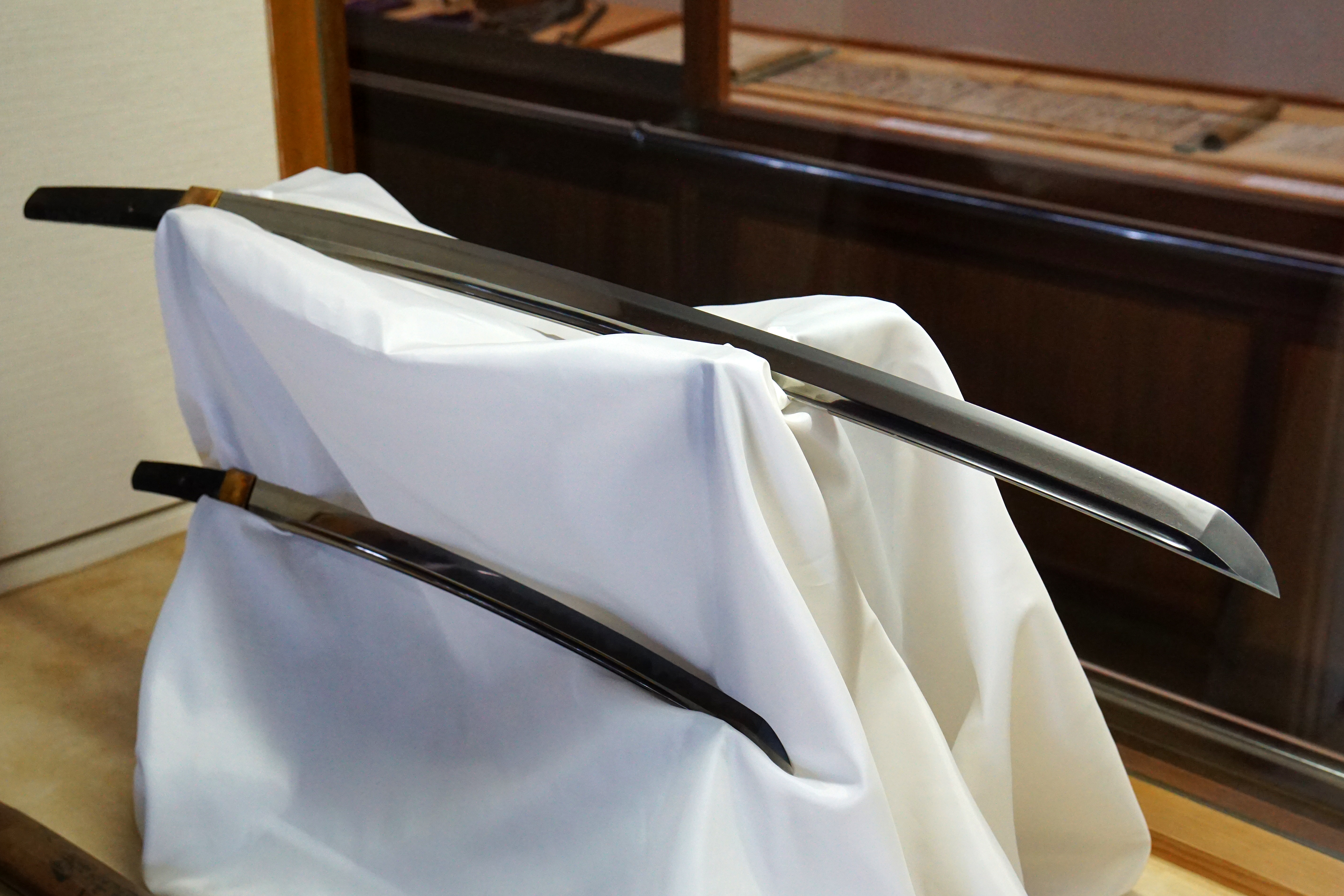 At Ako-Oishi-jinja in Ako, Hyogo prefecture, Japan.